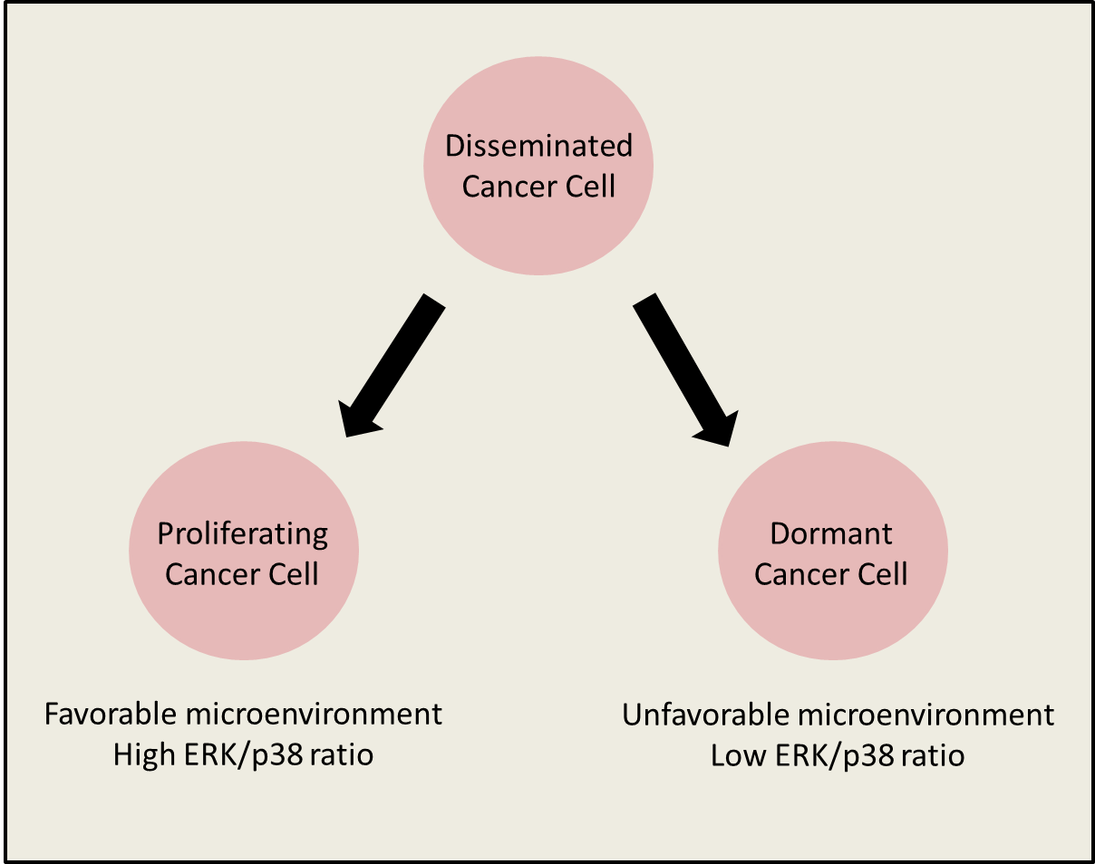 It shows how cancer cells become dormant.